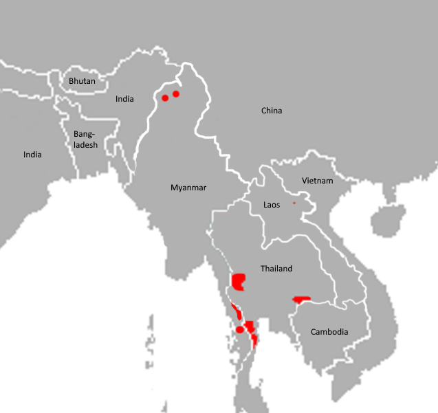 Map of Panthera tigris corbetti scattering, with national borders added